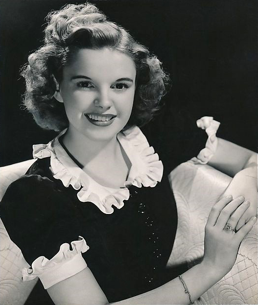 Publicity photograph of Judy Garland issued after completion of her 1939 films: The Wizard of Oz and Babes in Arms.